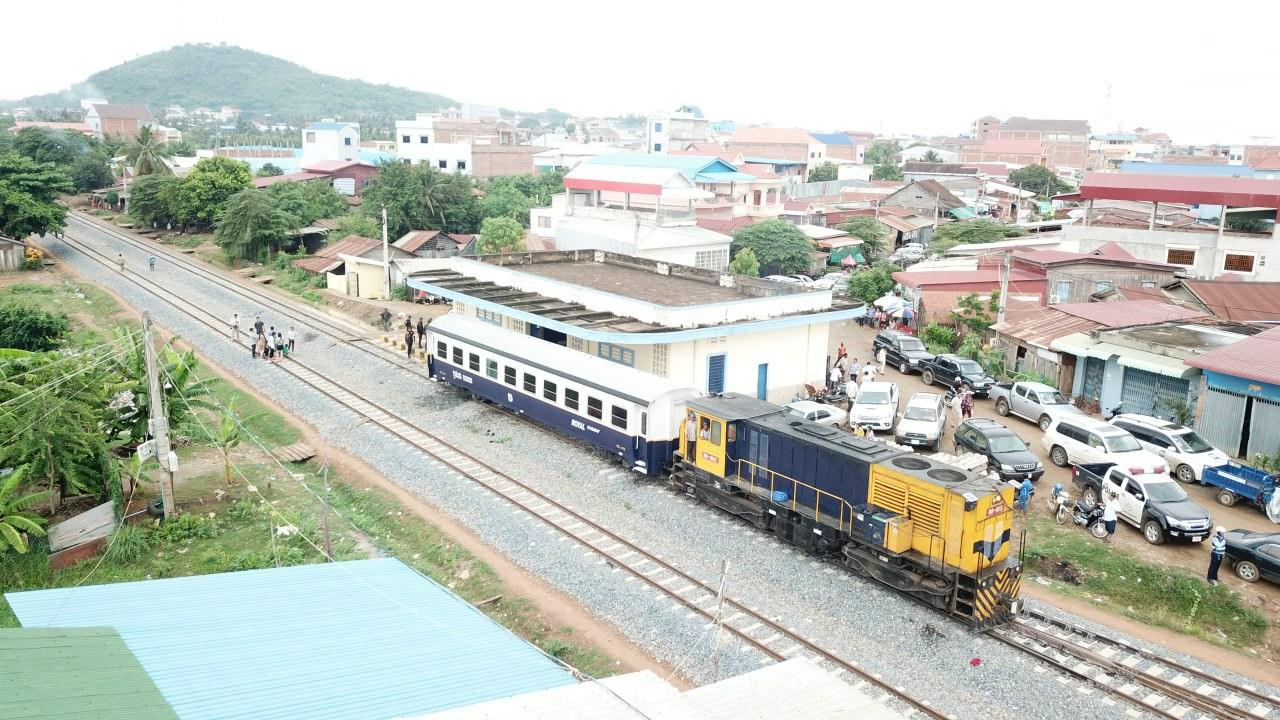 CC: MTPW